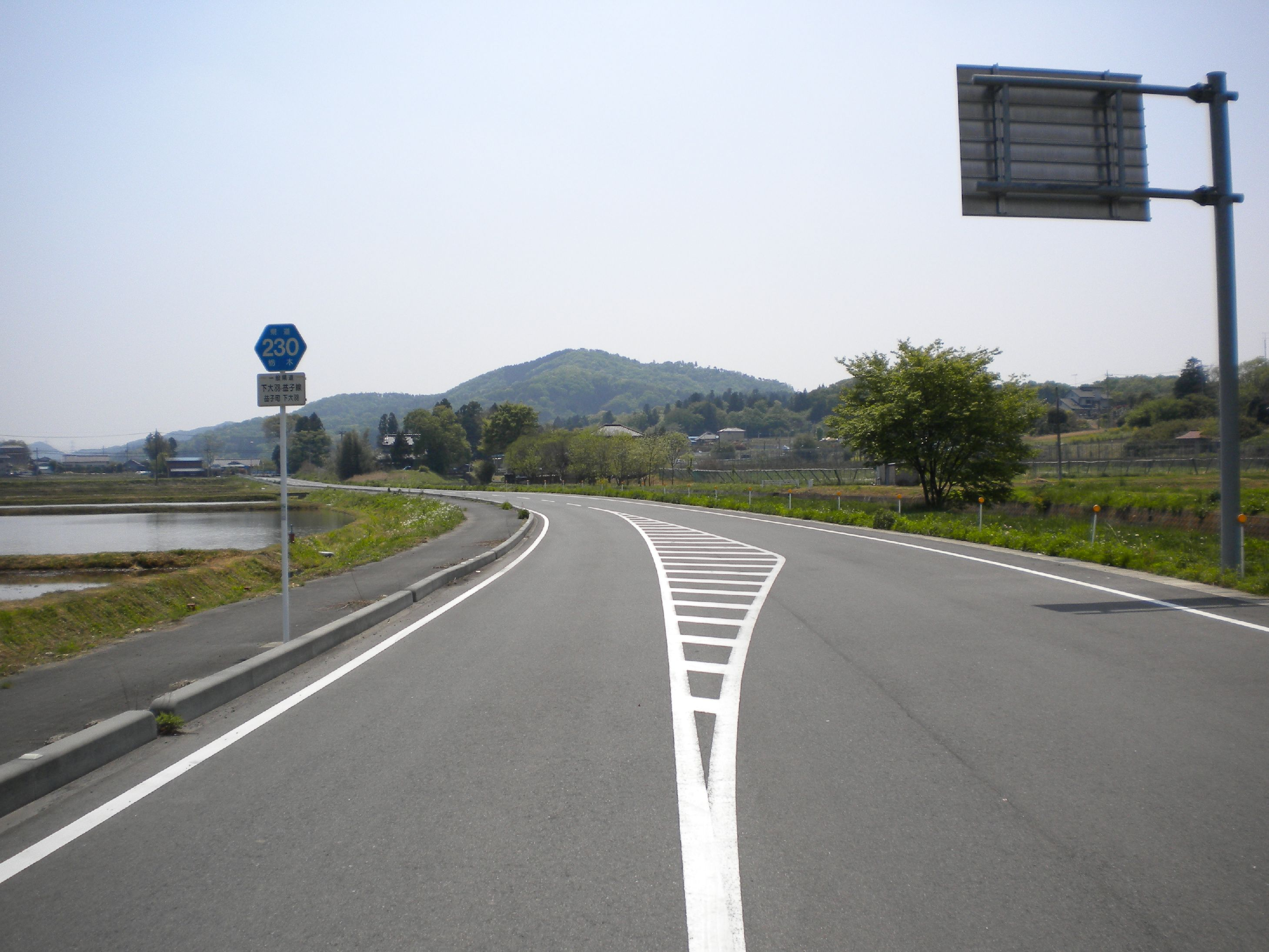 Tochigi prefectural road No.230 on Mashiko town